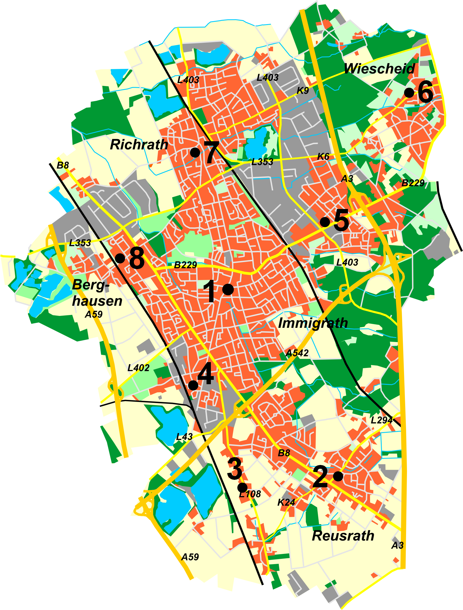 Map of Langenfeld (Rheinland) in Nordrhein-Westfalen, Germany with cath. churches